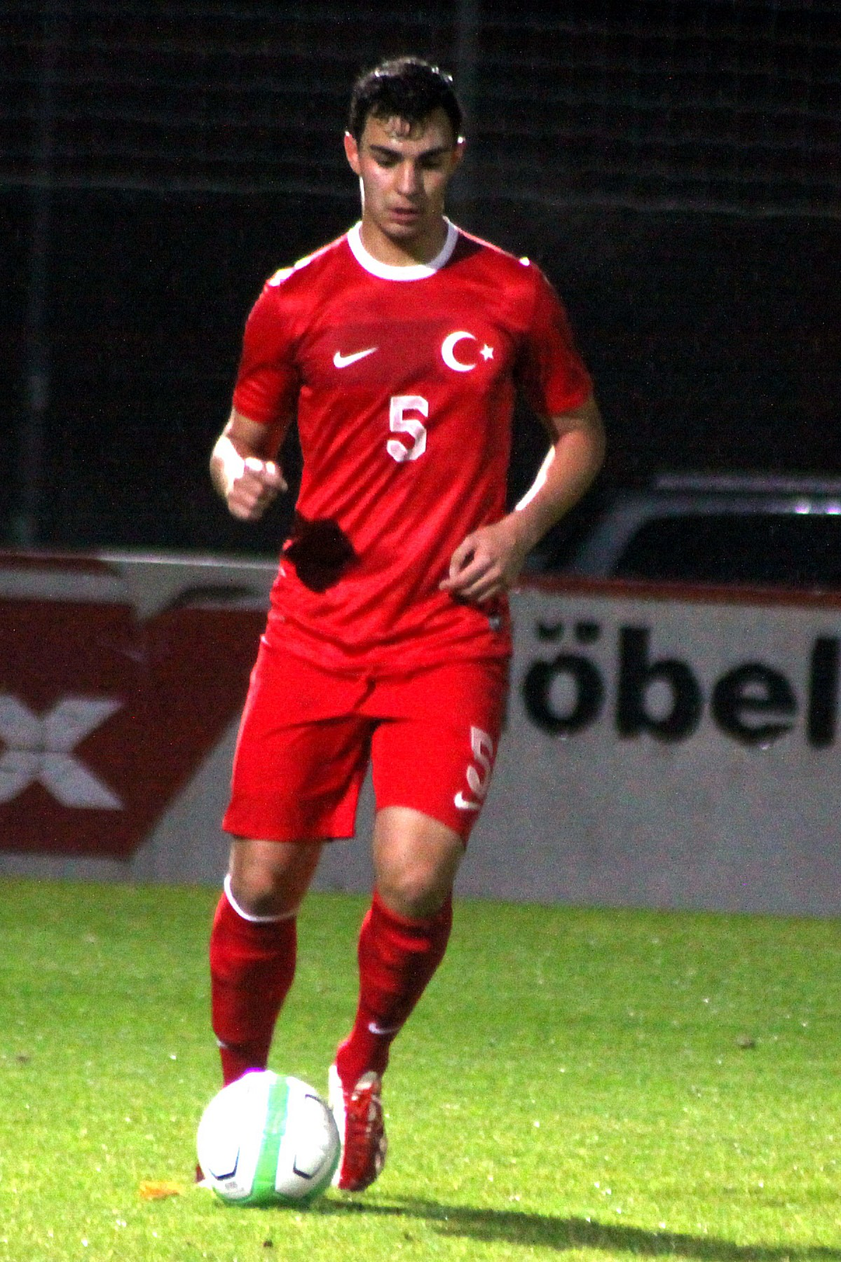 Friendly-match Austria U-21 vs. Turkey U-21 (2:0) on 2013-11-14 in Wiener Neudorf. – The photo shows Kaan Ayhan (FC Schalke 04, Turkey).